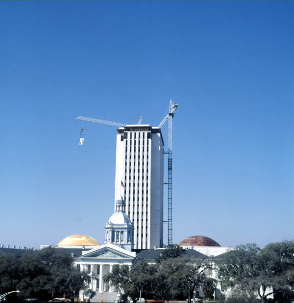 Looking west at the east side of the capitol, this image may have been photographed from the Mayo Building.